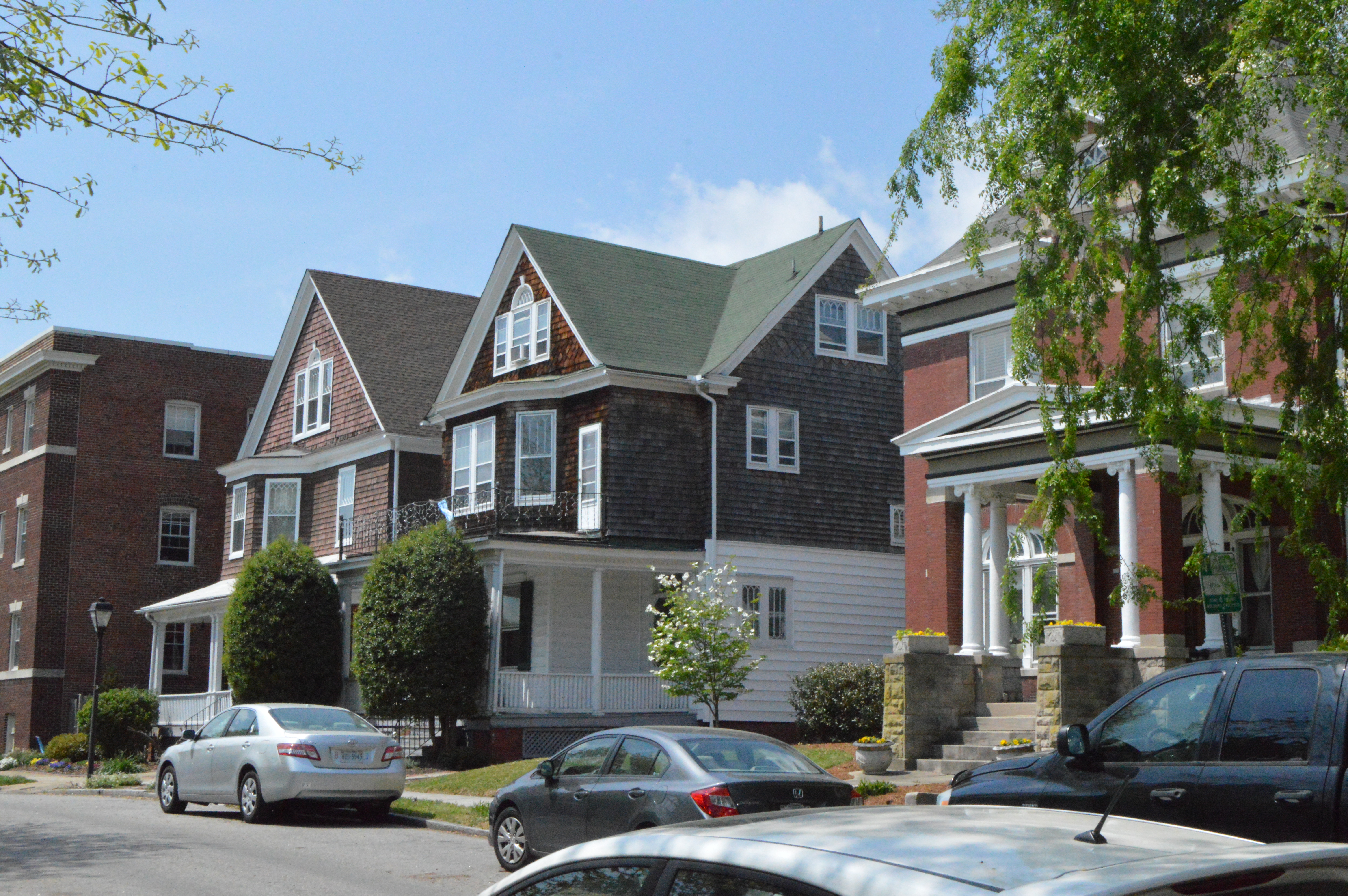 Houses on the western side of Stockley Gardens north of the Olney Road intersection in Norfolk, Virginia, United States. This block is part of the North Ghent neighborhood, a historic district that is listed on the National Register of Historic Places.